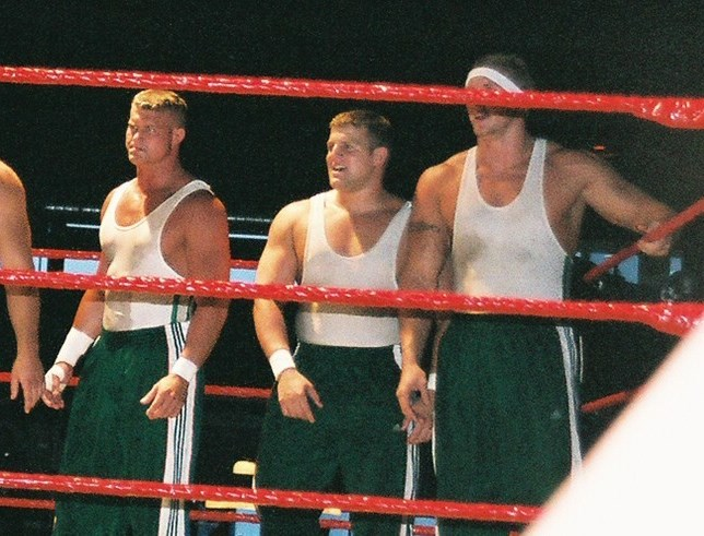 Spirit Squad members Nicky (real name Nick Nemeth; left), Mikey (real name Michael Brendli; center) and Kenny (real name Ken Doane; right) during a tag team match against The Highlanders.